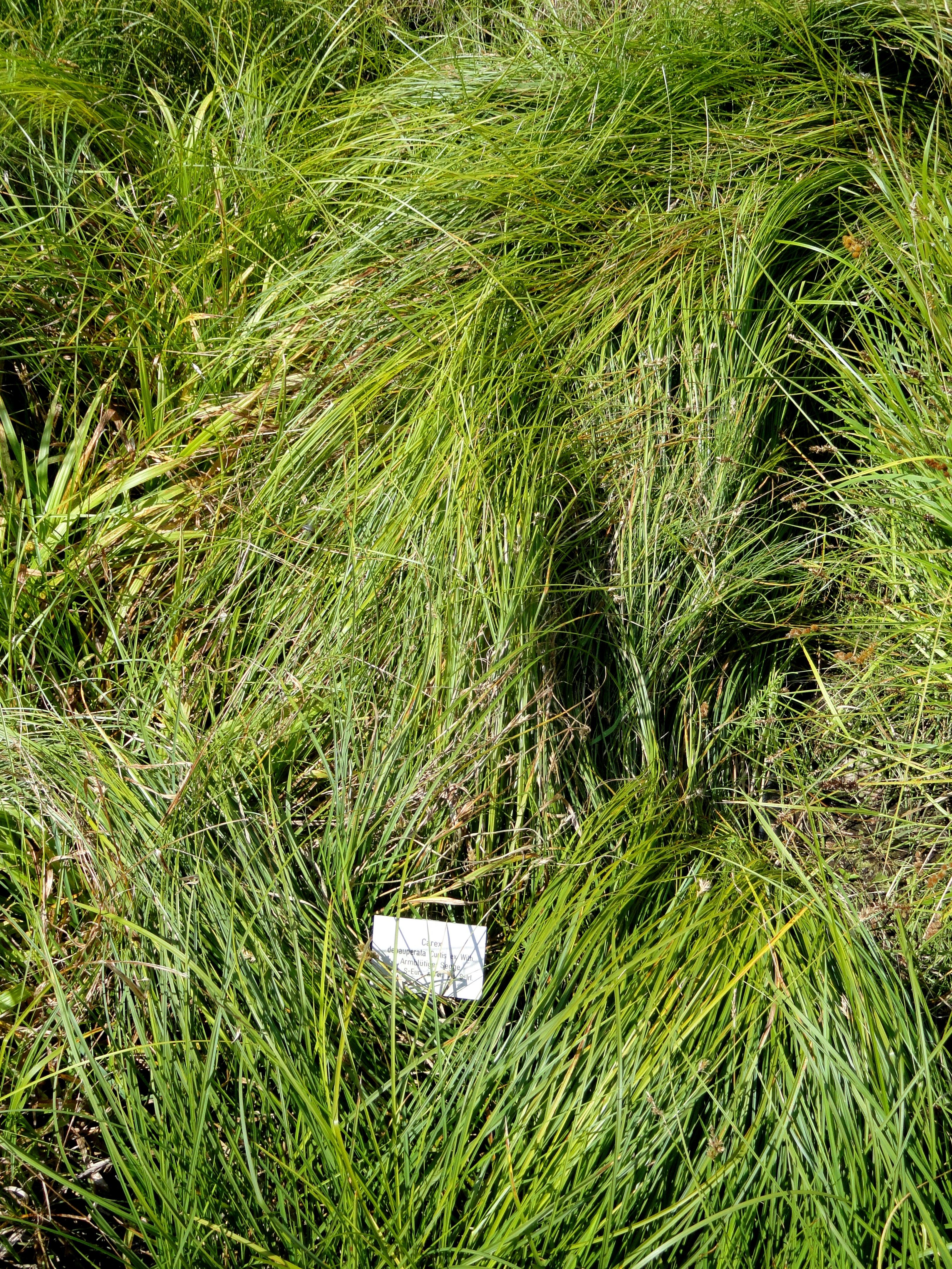 Botanical specimen in the Botanischer Garten, Frankfurt am Main, located at Siesmayerstraße 72, Frankfurt am Main, Germany.